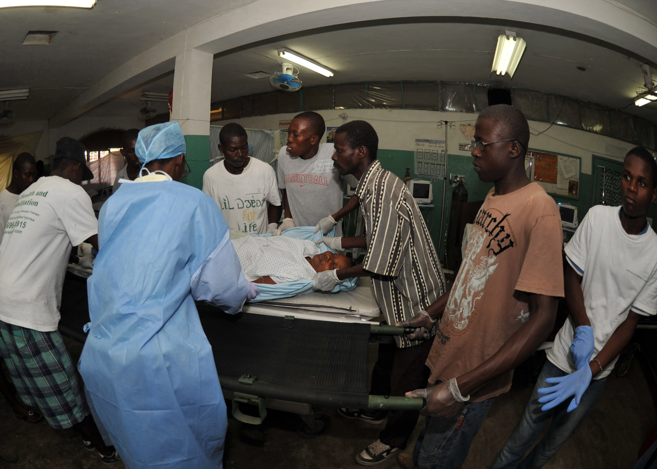 CAP-HAITIEN, Haiti (Feb. 6, 2010) Medical personnel prepare a Haitian woman for surgery at the Milot hospital in cap-Haitian, Haiti operated by the Crudem Foundation. Several U.S. and international military and non-governmental agencies are conducting humanitarian and disaster relief operations as part of Operation Unified Response after a 7.0-magnitude earthquake caused severe damage in and around Port-au-Prince, Haiti Jan. 12. (U.S. Navy photo by Chief Mass Communication Specialist Robert J. Fluegel/Released)